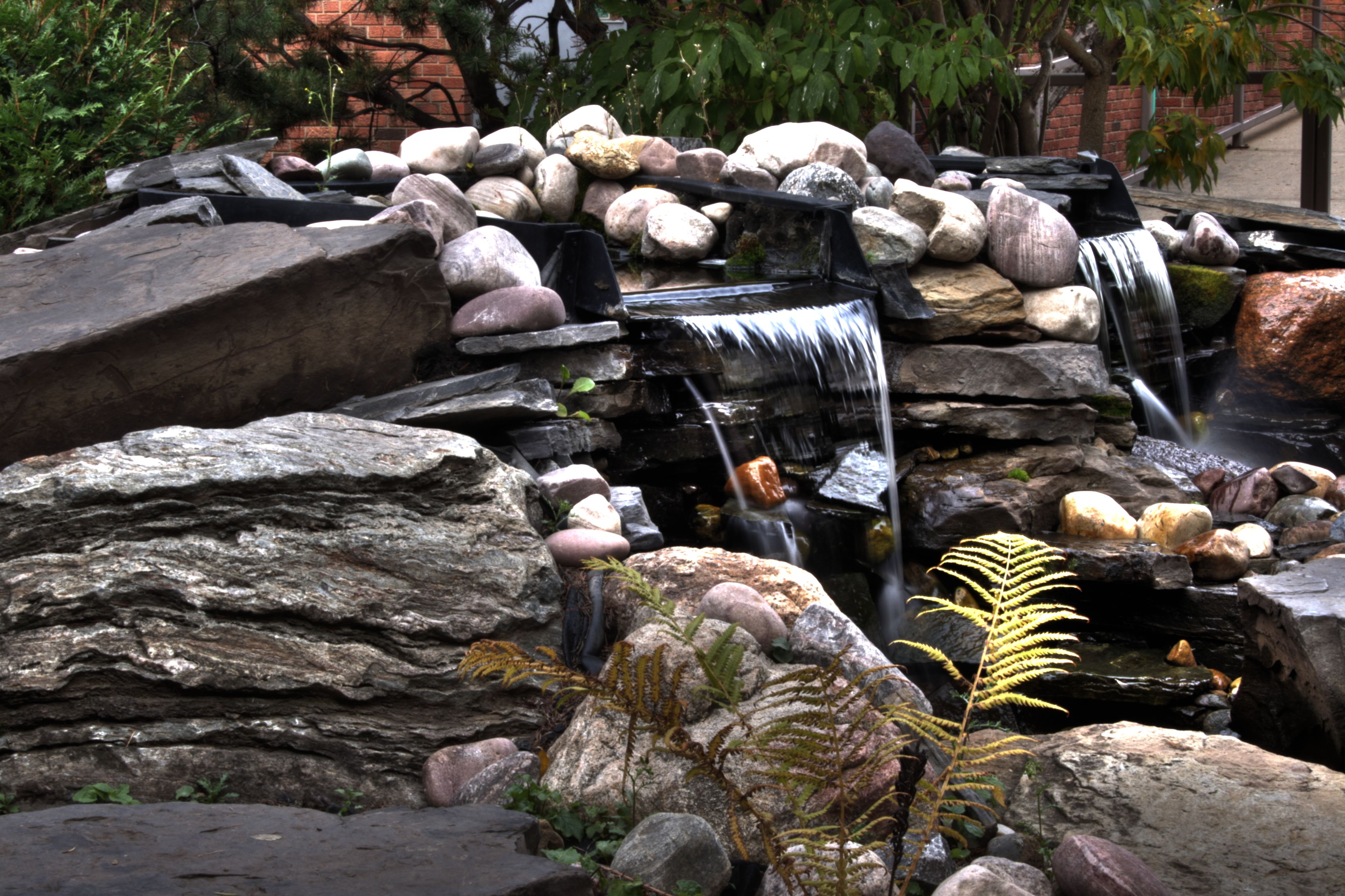 Waterfall in rock garden on Edmonton campus of the University of Alberta, Edmonton, Alberta, Canada.